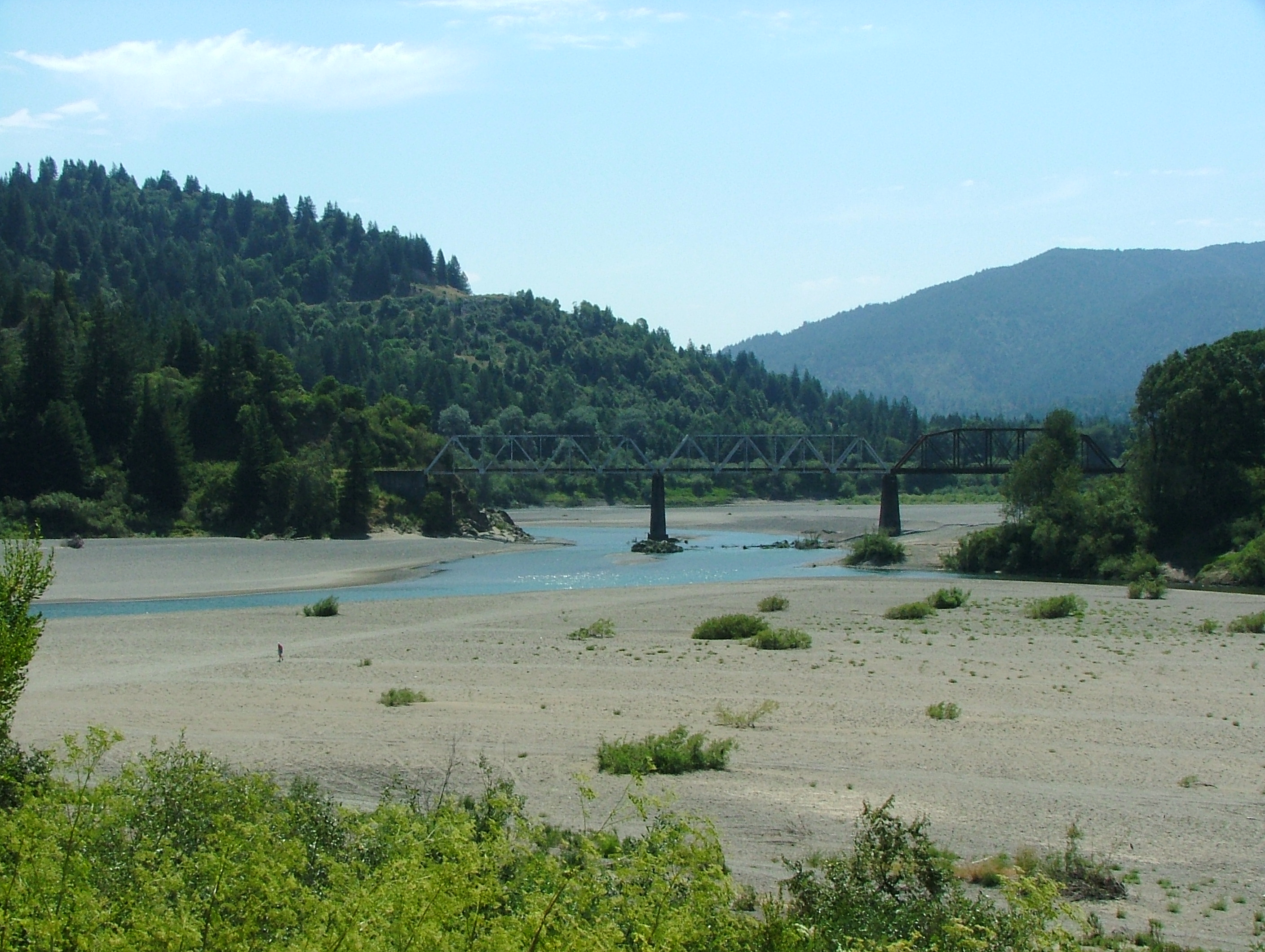 Dyerville is located to the right of this photo along a sliver of land behind state park land along the North Fork of the Eel River. The South Fork merges from the right. Dyerville is bordered on the west side by Humboldt Redwoods State Park, notably Founders Grove. Avenue of the Giants, the old Highway 101, cuts through this portion of the park. The four-lane Highway 101 is also to the right of this photo. Some residents remain in the area generally regarded as Dyerville, which once was a bustling place along the railroad, evidence by the railroad trestle shown in the photo. The railroad is shut down between Willits and Samoa.